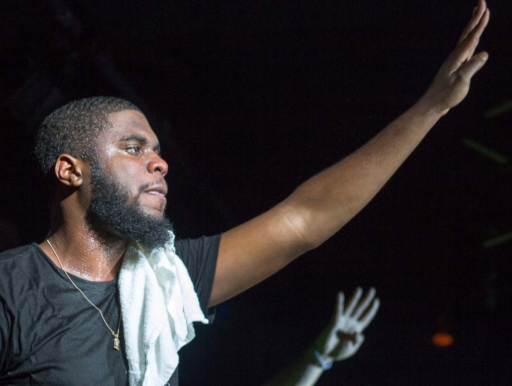 BIG K.R.I.T., Pay Attention Tour October 10 2014 Toronto. Photography by CZR-E for The Come Up Show. Check out the review at